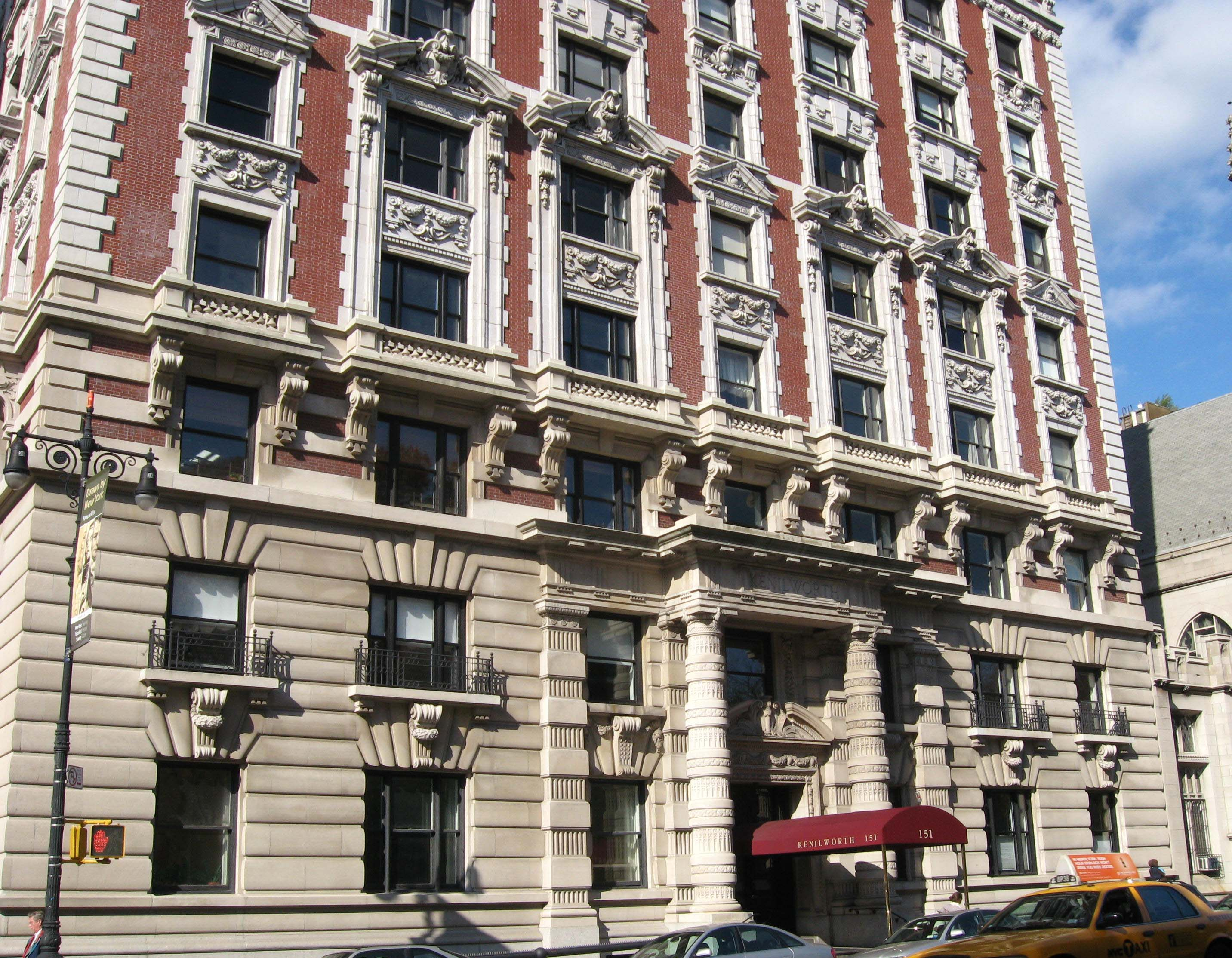 Looking northwest across Central Park West at The Kennilworth, 151 CPW on a sunny midday